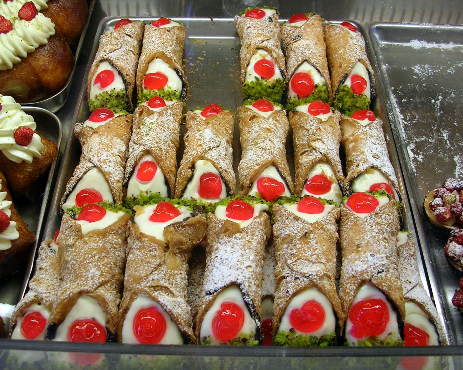 Cannoli Siciliani, a typical Sicilan sweet.